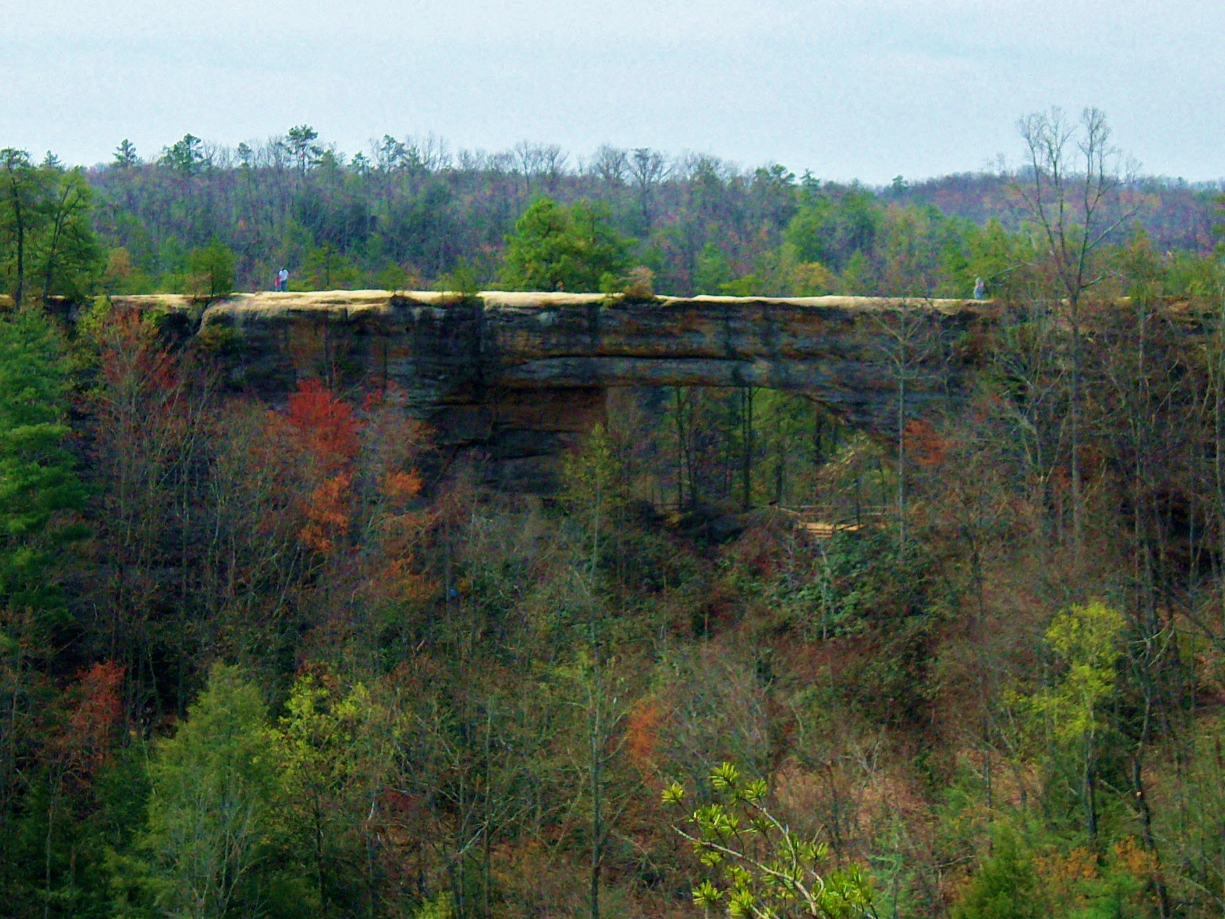 Natural Bridge near Slade, Kentucky.